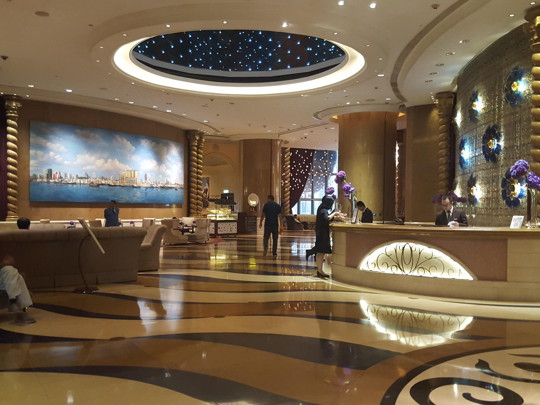 Lobby of Sofitel Macau At Ponte 16